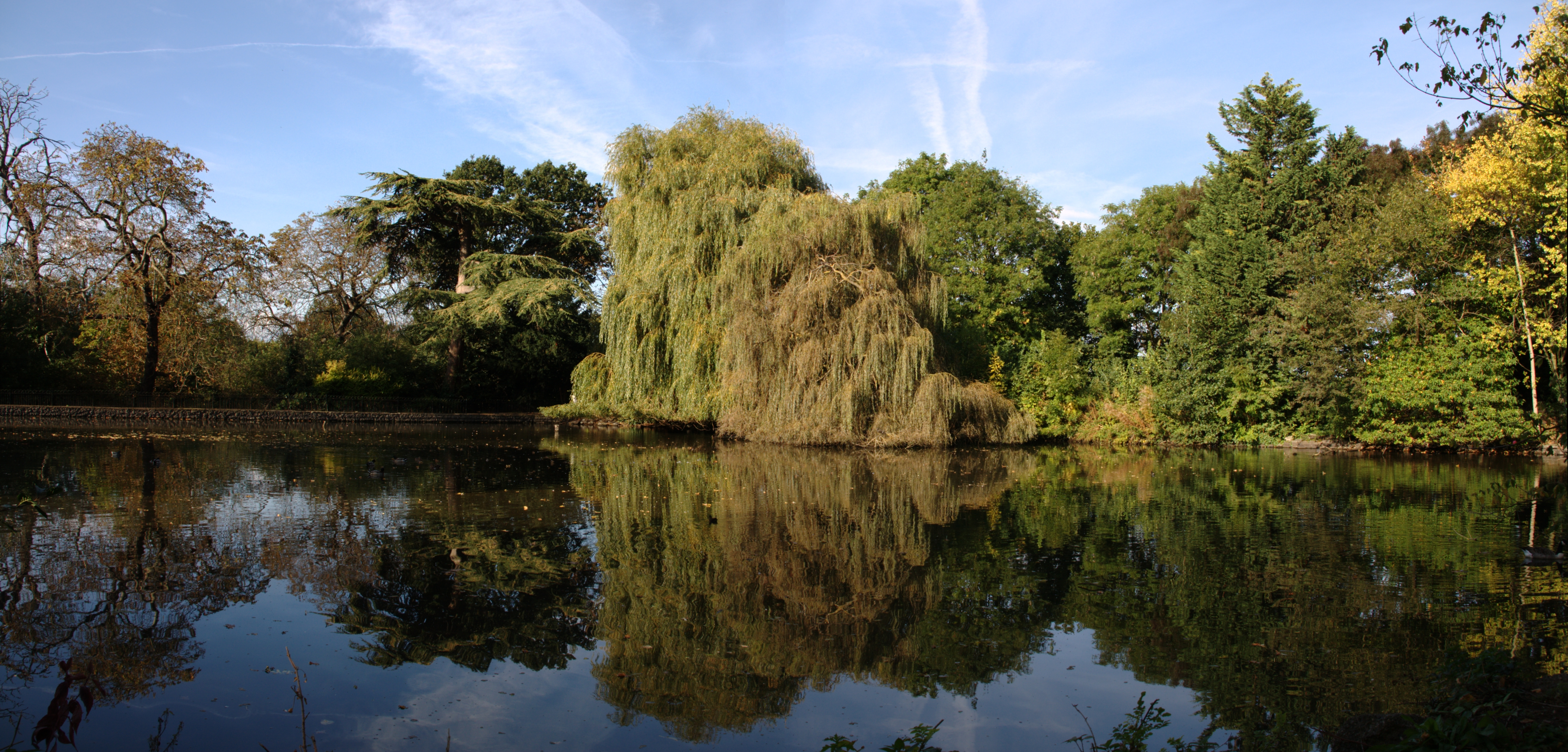 Ornamental lake in the grounds of Boston Manor House. Situated on gently sloping ground it is therefore, obviously not natural in origin and nor does not appear on John Rocques map of 1745. It is fed by spring water.